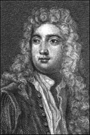 Sir Thomas Hanmer, 4th Baronet (1677-1746)